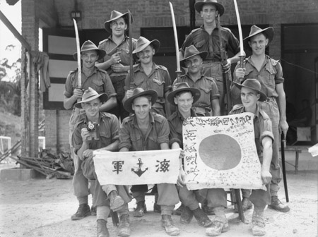 Sourced from: Copyright: The AWM record for this photo states that the copyright status is 'clear'. The photo was taken in 1945. AWM Caption: Djoeata Boorterein, Tarakan Island. 1945-07-02. Group portrait of the remaining members of C Company, 2/24th Infantry Battalion, outside their cookhouse, with their Company Commander, VX11420L? Captain R T Eldridge.